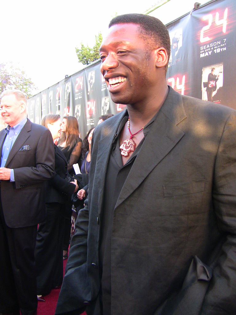 Hakeem Kae-Kazim - 24 Finale Screening - Wadsworth Theater, Los Angeles, Calif. - May 12, 2009